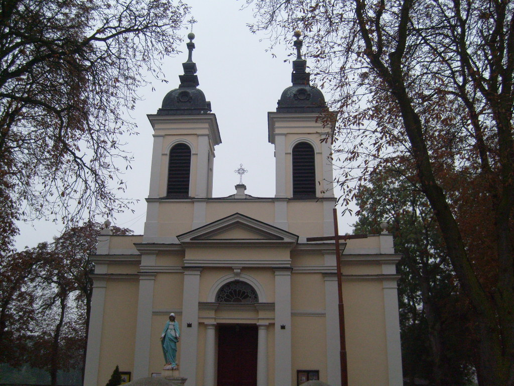 The church in Sanniki, Poland